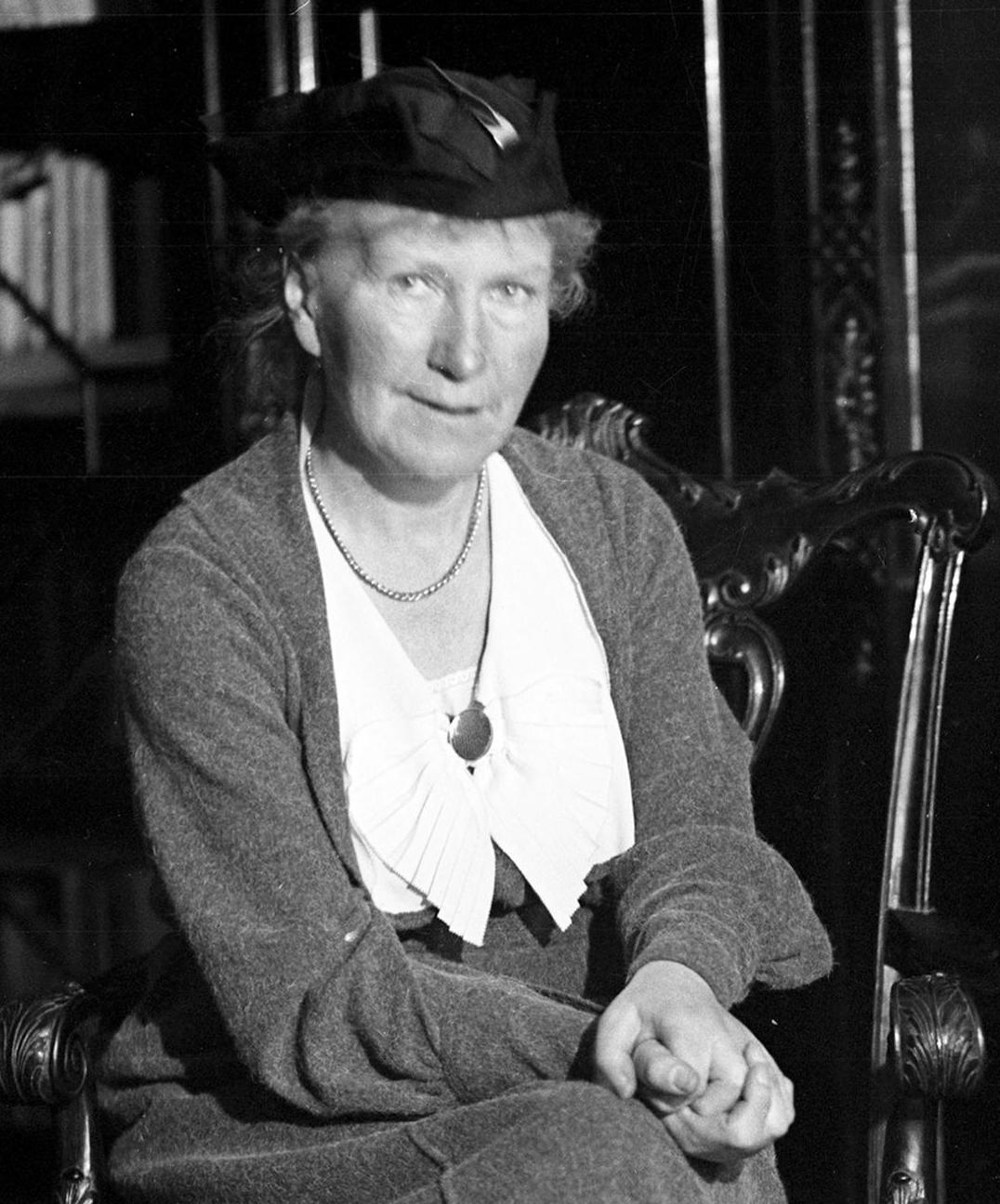 A visit of the Swiss feminist activist Emilie Gourd at the IKC ("Ilustrowany Kurier Codzienny"} newspaper headquarters in Krakow in Poland. Emilie Gourd (on the left) and the IKC editor Zofia Lewakowska (on the right).